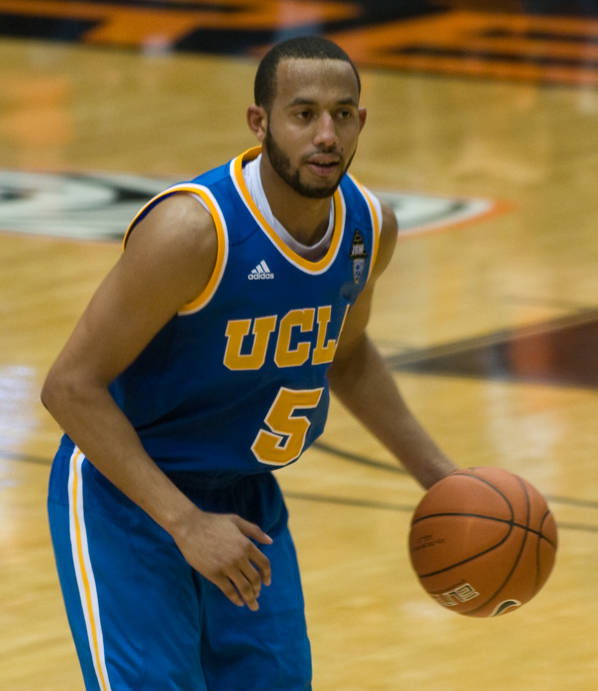 Oregon State Beavers vs. UCLA Bruins